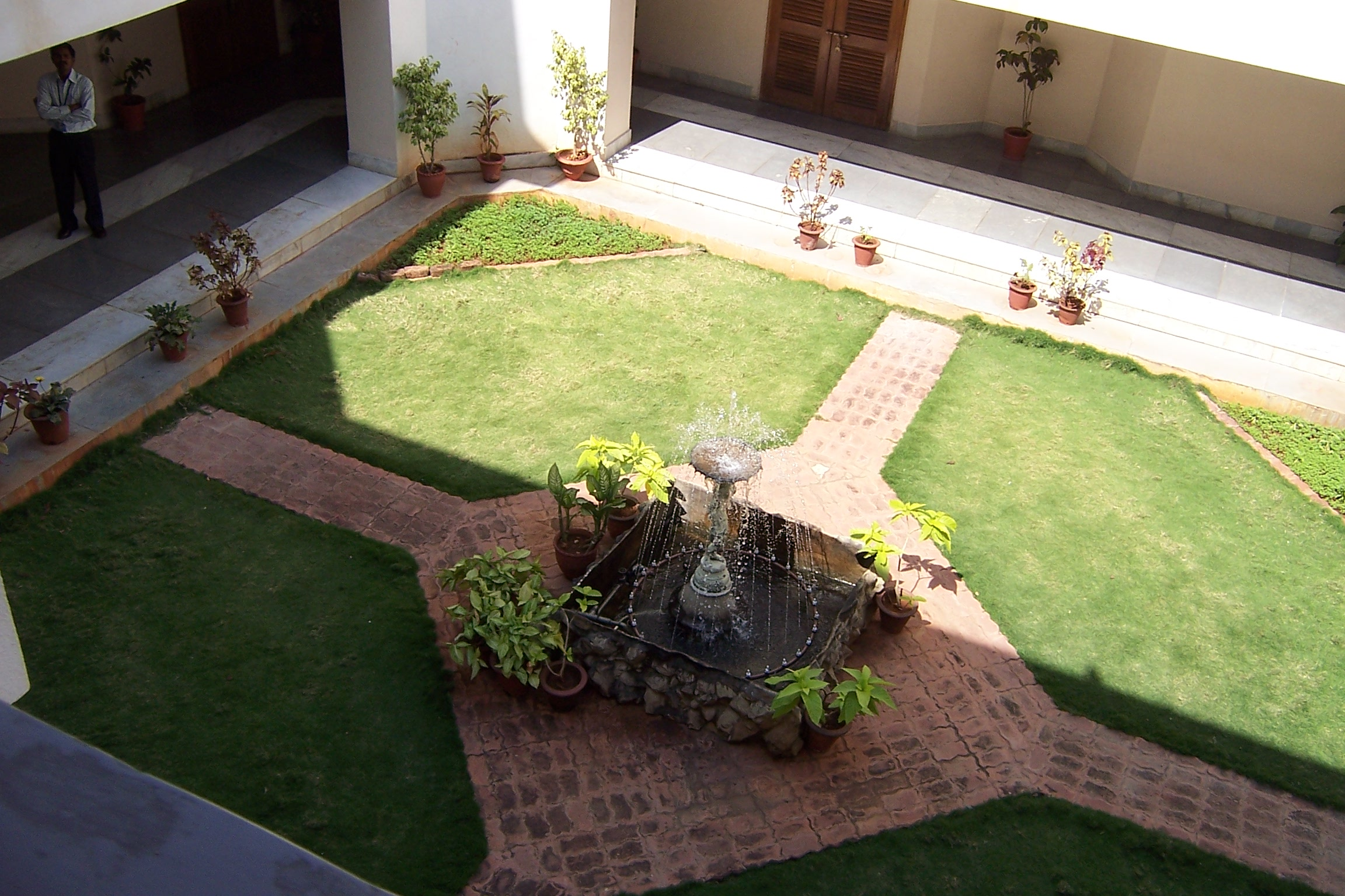 A look down at a courtyard within the facility of the Institute for Development and Research in Banking Technology in Hyderabad, India.